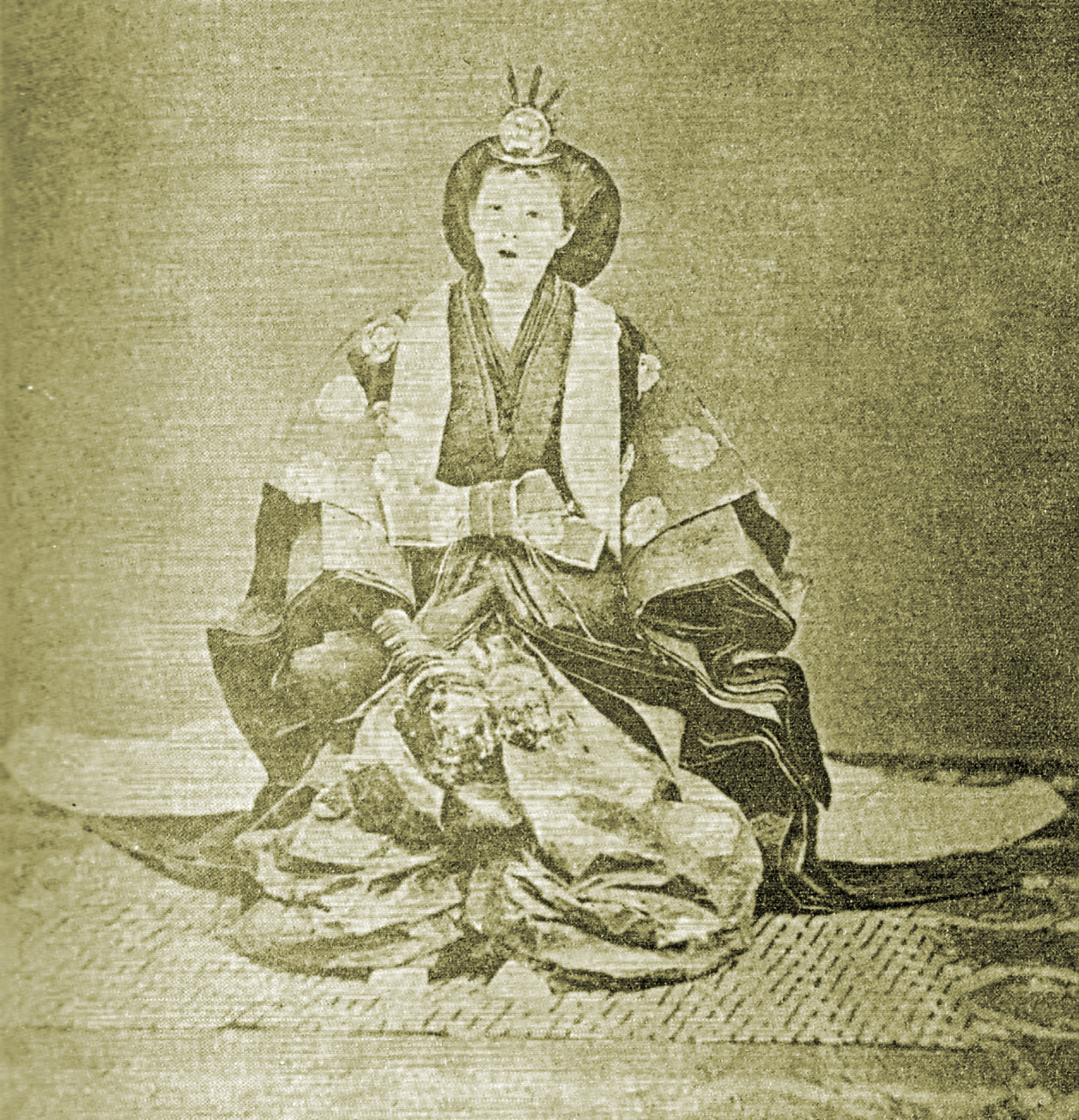 Empress Dowager Eishō (Eishō-kōtaigō, nee Lady Asako Kujō, 11 January 1835 – 11 January 1897) was the consort of Emperor Kōmei and adopted mother of Emperor Meiji. She is also known under the technically incorrect name Empress Eishō (Eishō-kōgō).